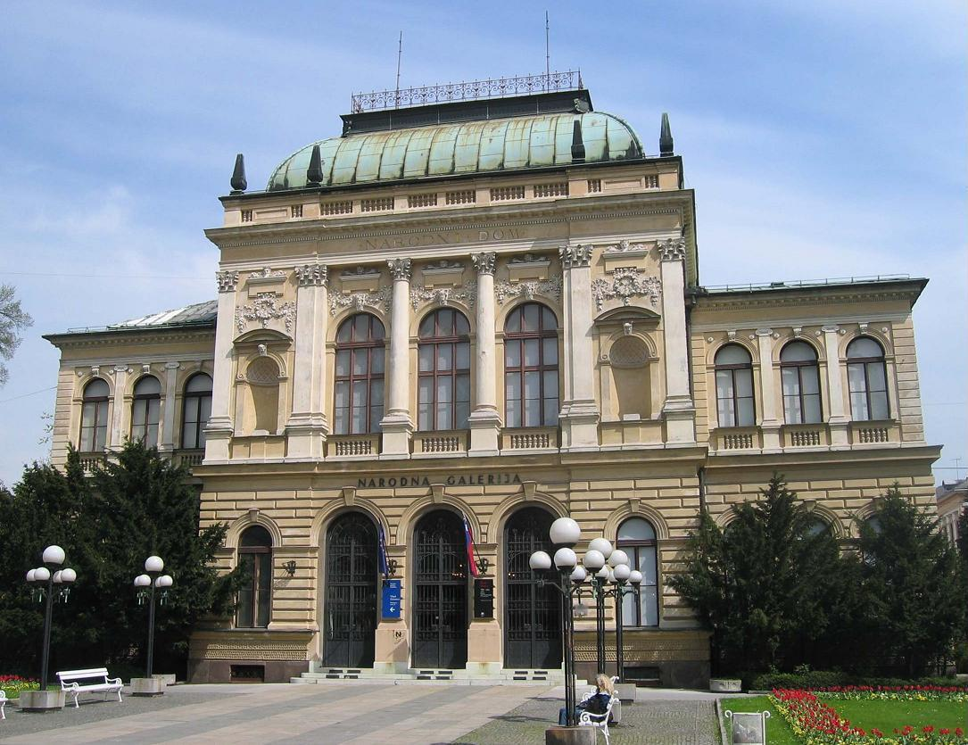 National art gallery, Ljubljana photo:Ziga 10:56, 27 April 2006 (UTC) See also: Image:NationalGallery-Ljubljana 2.jpg